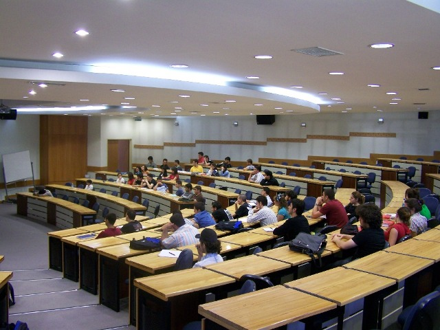 Metu Auditorium